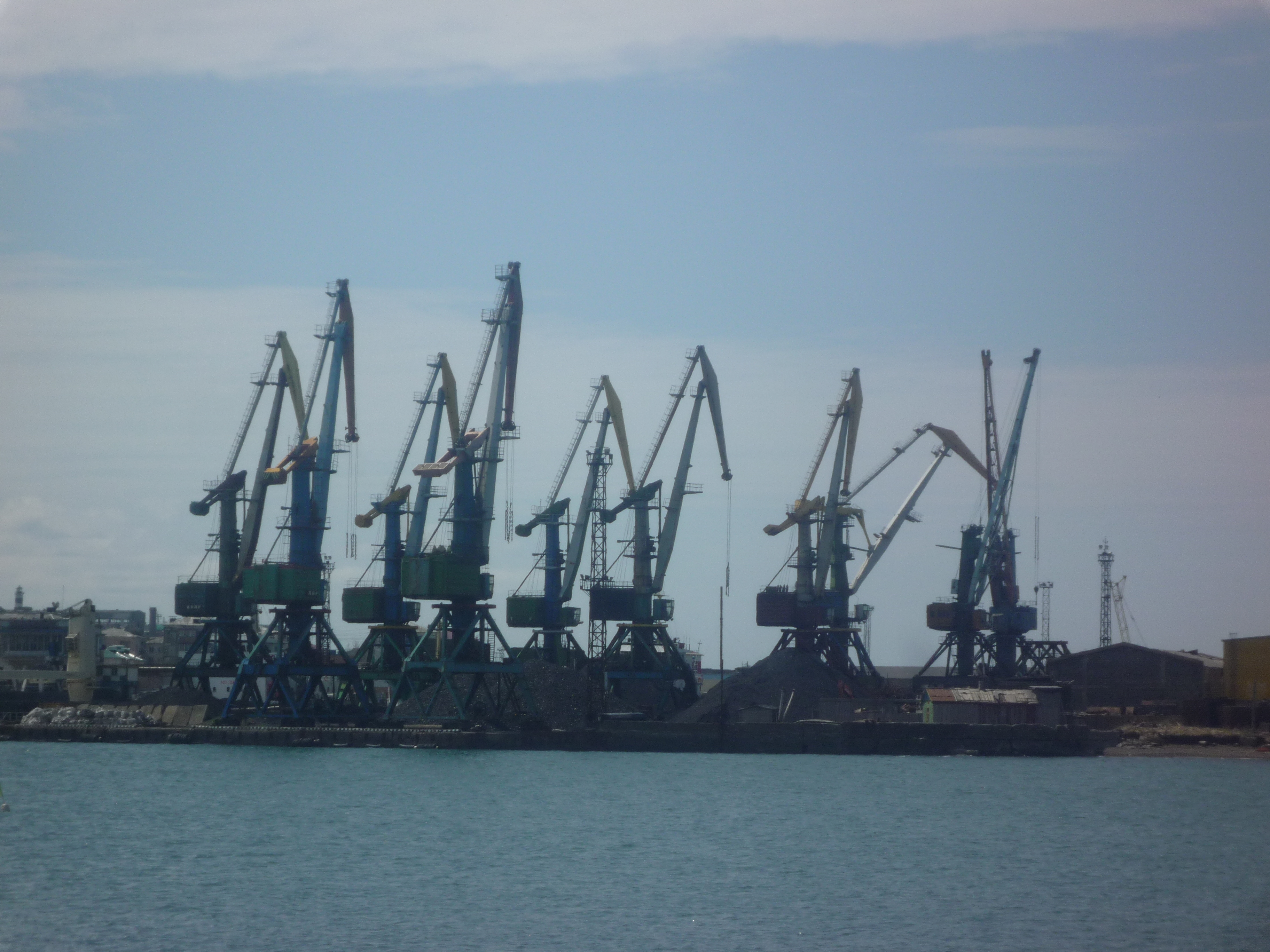 Холмский порт